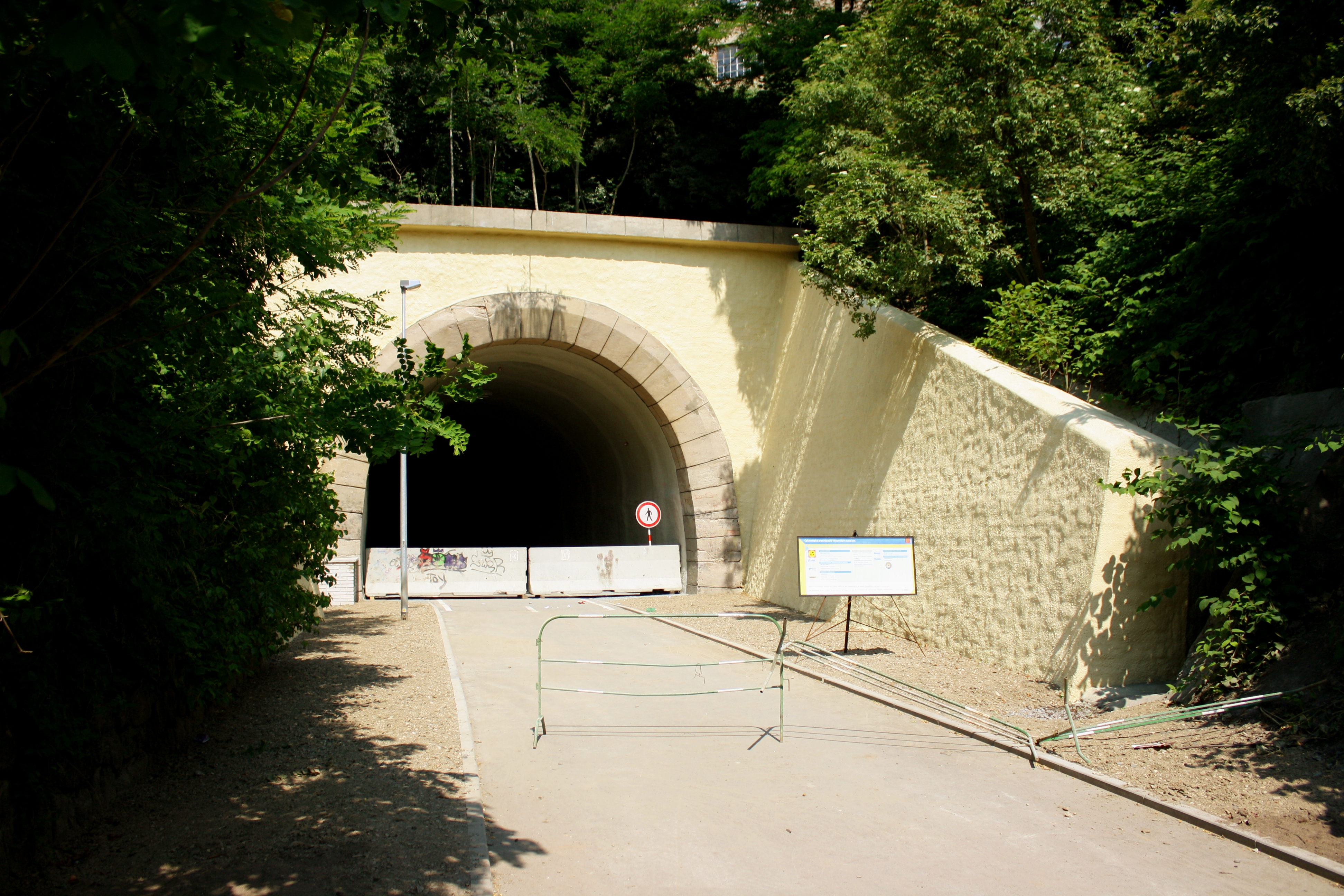 Žižkov portal of the old Vítkov Tunnel, after abandoning of Vítkov track (2008) rebuild to cycleway. Image depictures situation close to finish; the tunnel is closed to public with concrete blocks. Bikers, in-liners and walkers are using the tunnel anyway.